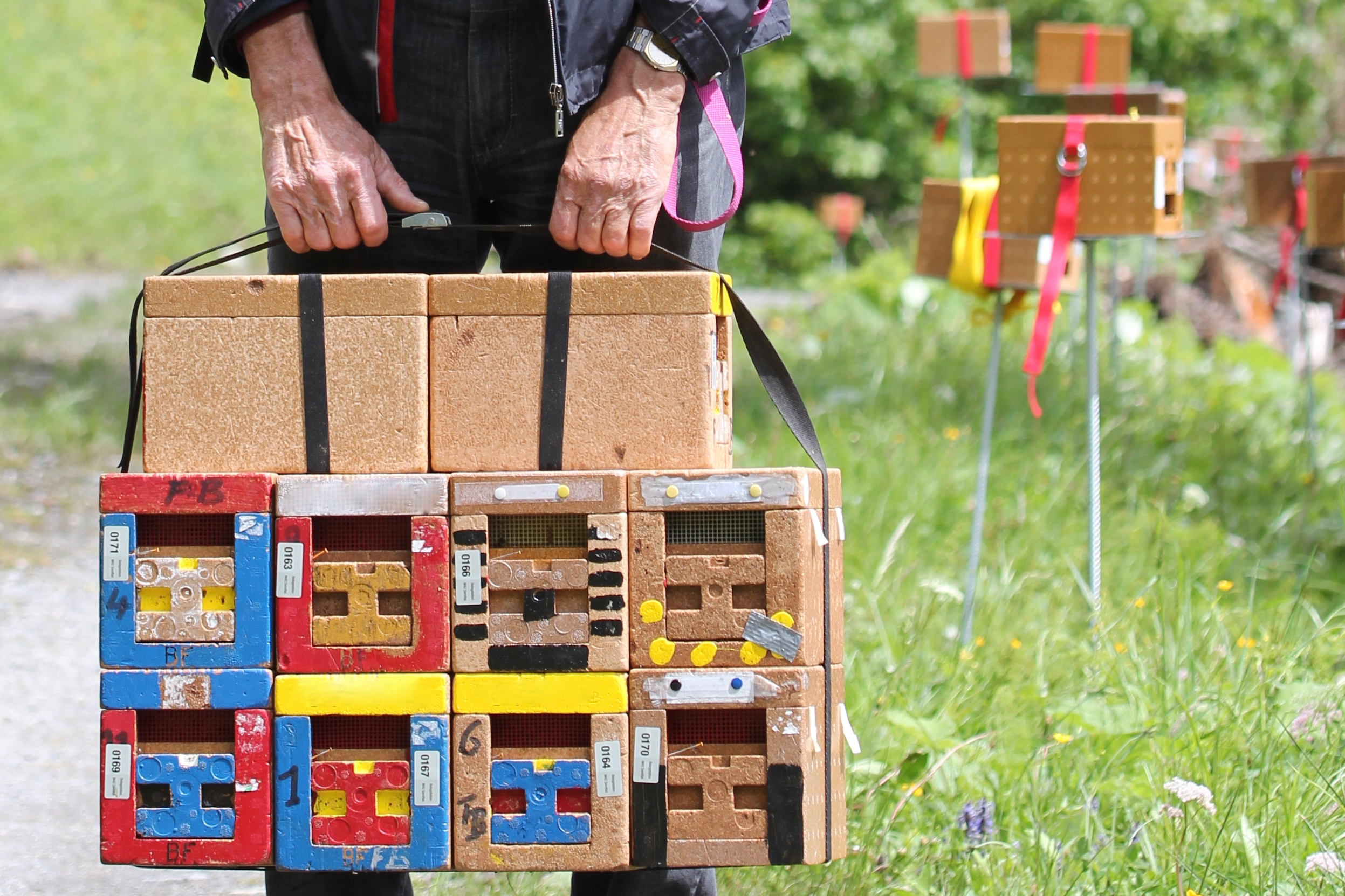 Mating nucs (Apidea box) on the isolated mating location for dark bees (Apis mellifera mellifera) in Sernftal, Glarus, Switzerland.